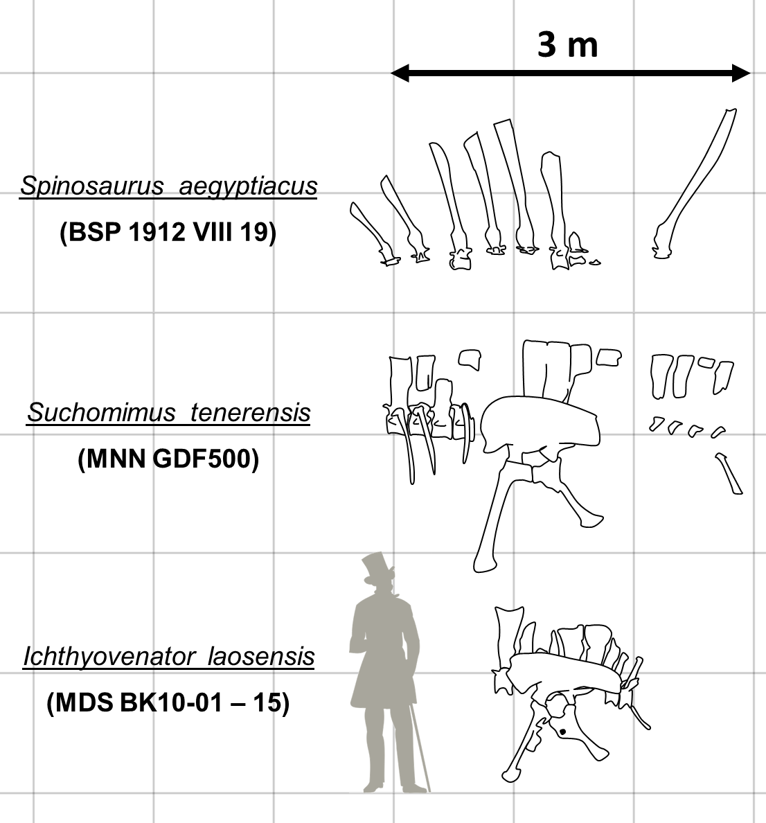 Comparison between the pelvic region and neural spine sails of three spinosaurids. Spinosaurus is derived from: File:Spinosaurus aegyptiacus holotype skeletal.jpg Suchomimus from: File:Suchomimus tenerensis.jpg Ichthyovenator based on Allain et al. (2012)[1] and reconstructed vertebrae at the National Museum of Nature and Science in Tokyo[2].[3].